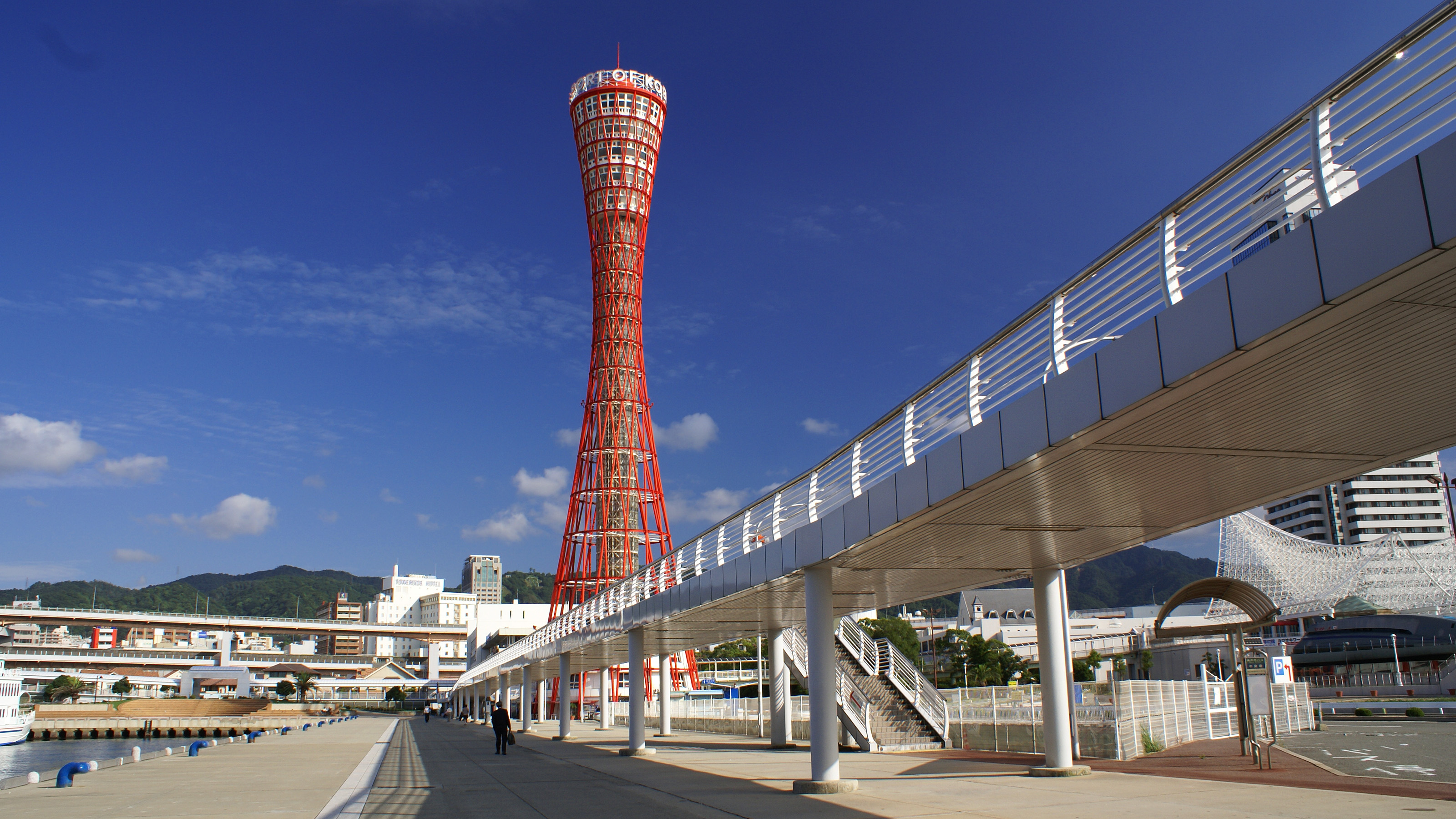 Kobe Tower and the wharf "Nakatottei" of the Kobe harbor (Kobe, Hyogo, Japan)